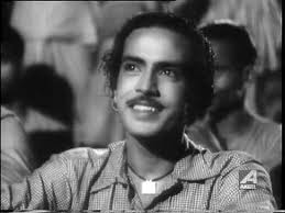 Hindi cinema actor and director Dhirendranath Ganguly in a scene from the 1921 Bengali film Bidesh Pherat or Bidesh Ferat